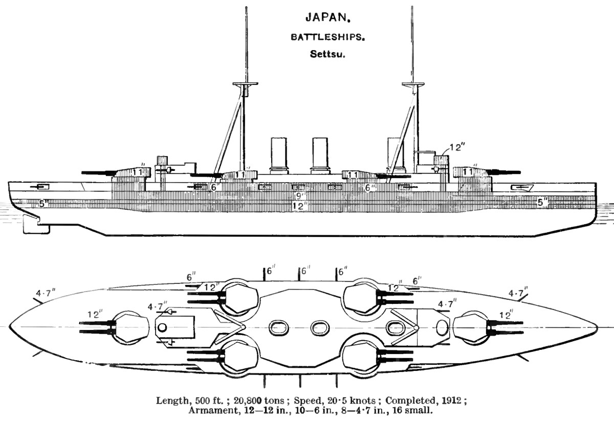 Right elevation and deck plan diagrams depicting Japanase Kawachi class battleship. Numbers on top diagram show armour thickness (shaded areas) in inches. Numbers on bottom diagram show size of guns in inches.